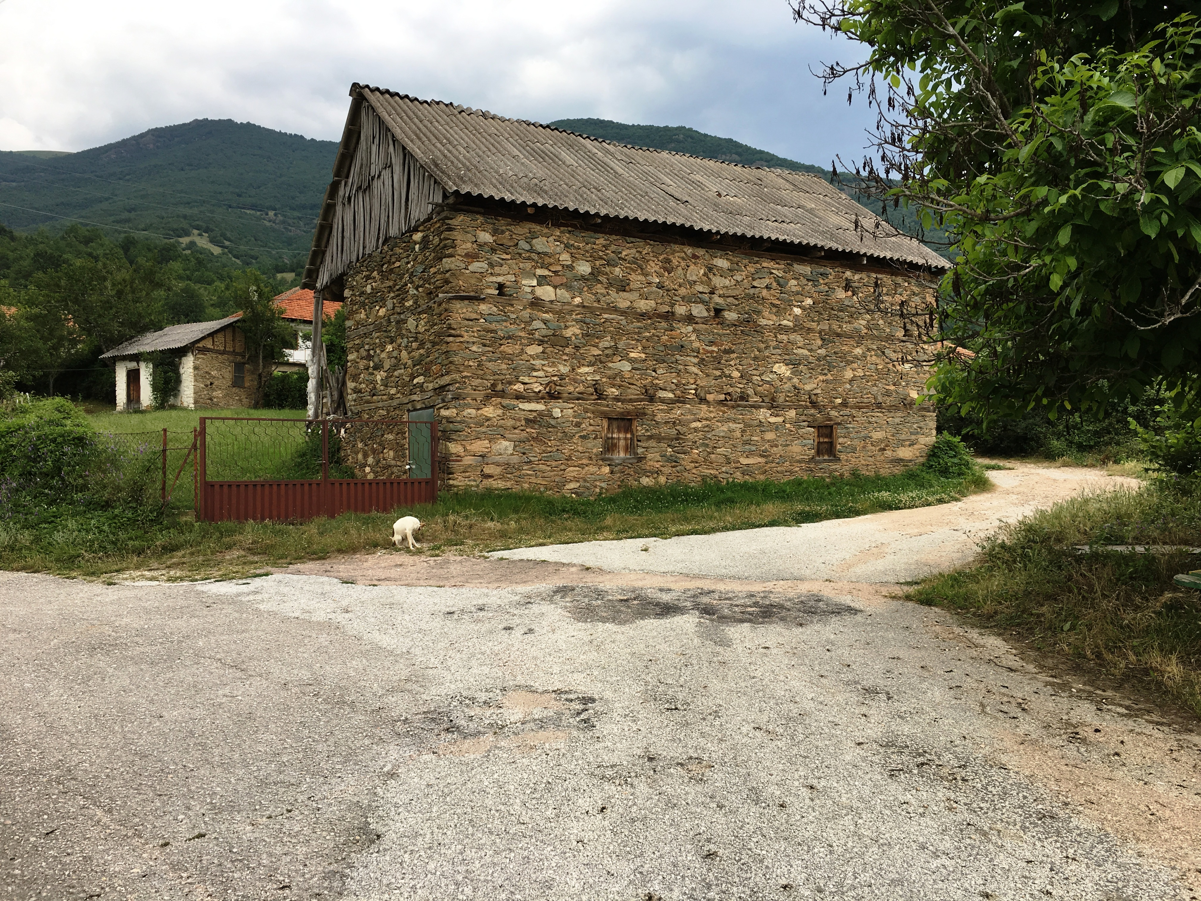 Traditional house in the village of Oreovec